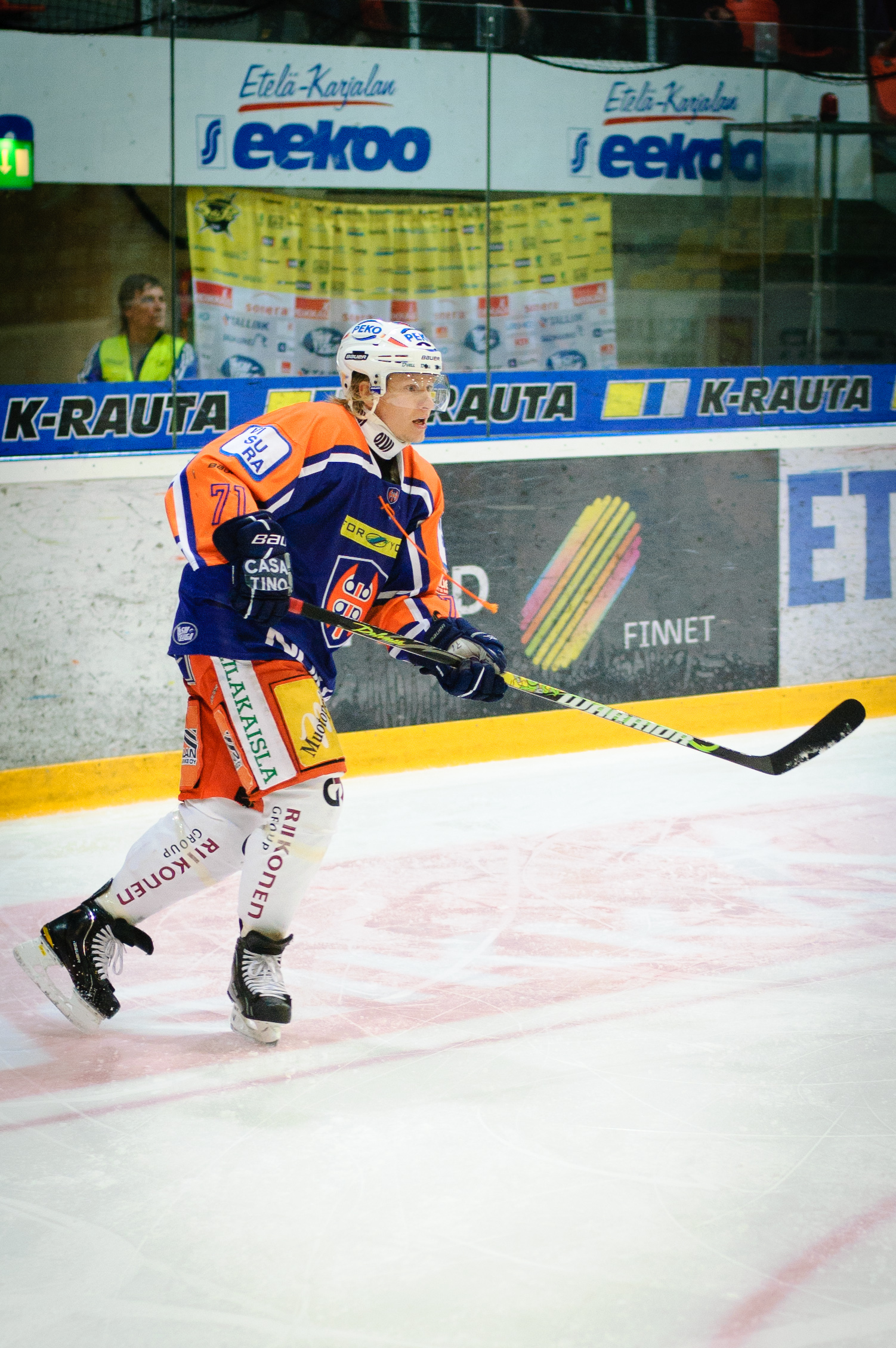 Finnish ice hockey player Antti Kangasniemi playing for Tappara Tampere against SaiPa Lappeenranta in the Finnish SM-liiga in Lappeenranta, Finland.